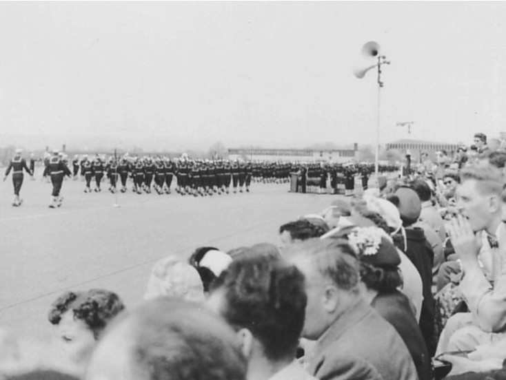 June 1954 graduation class of U.S. Navy seaman recruits at USNTC Bainbridge, Maryland.